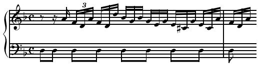 Pedal tone in Bach's Prelude no. 6 in D Minor, BWV 851, from The Well Tempered Clavier, Book I, m.1-2. Created by Hyacinth (talk) 04:49, 4 July 2011 (UTC) using Sibelius 5.